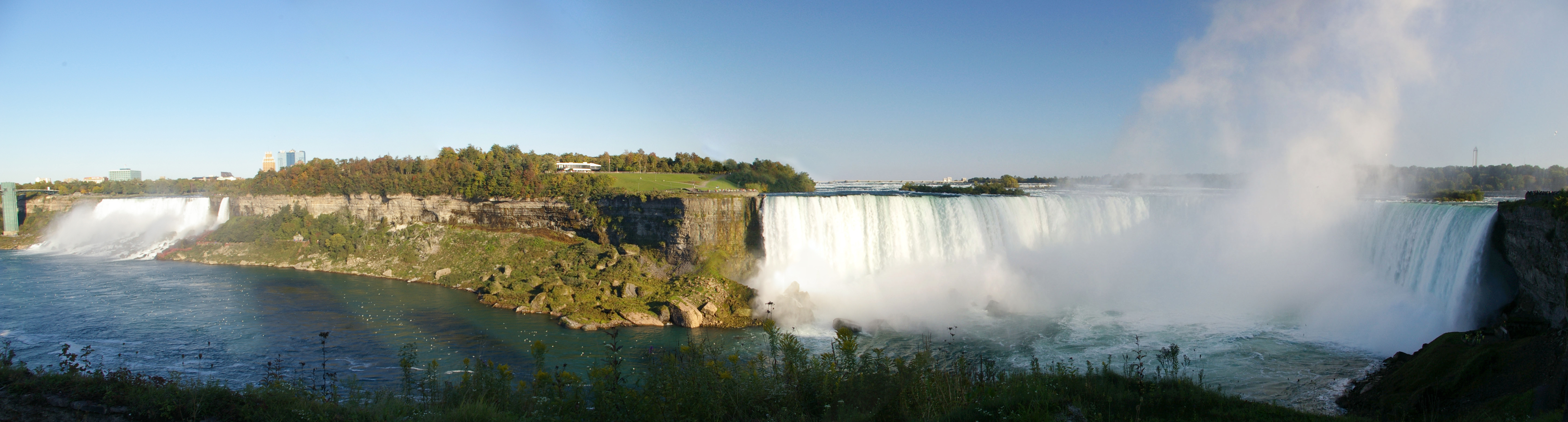 Niagara Falls, view from Canada, with American Falls and Bridal Veil Falls on the left, Horseshoe Falls on the right.